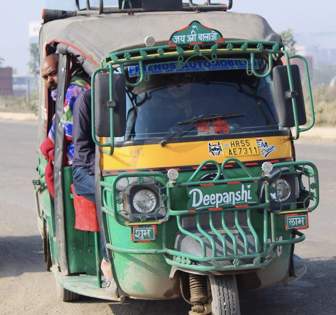 an Rickshaw clicked on an Indian road